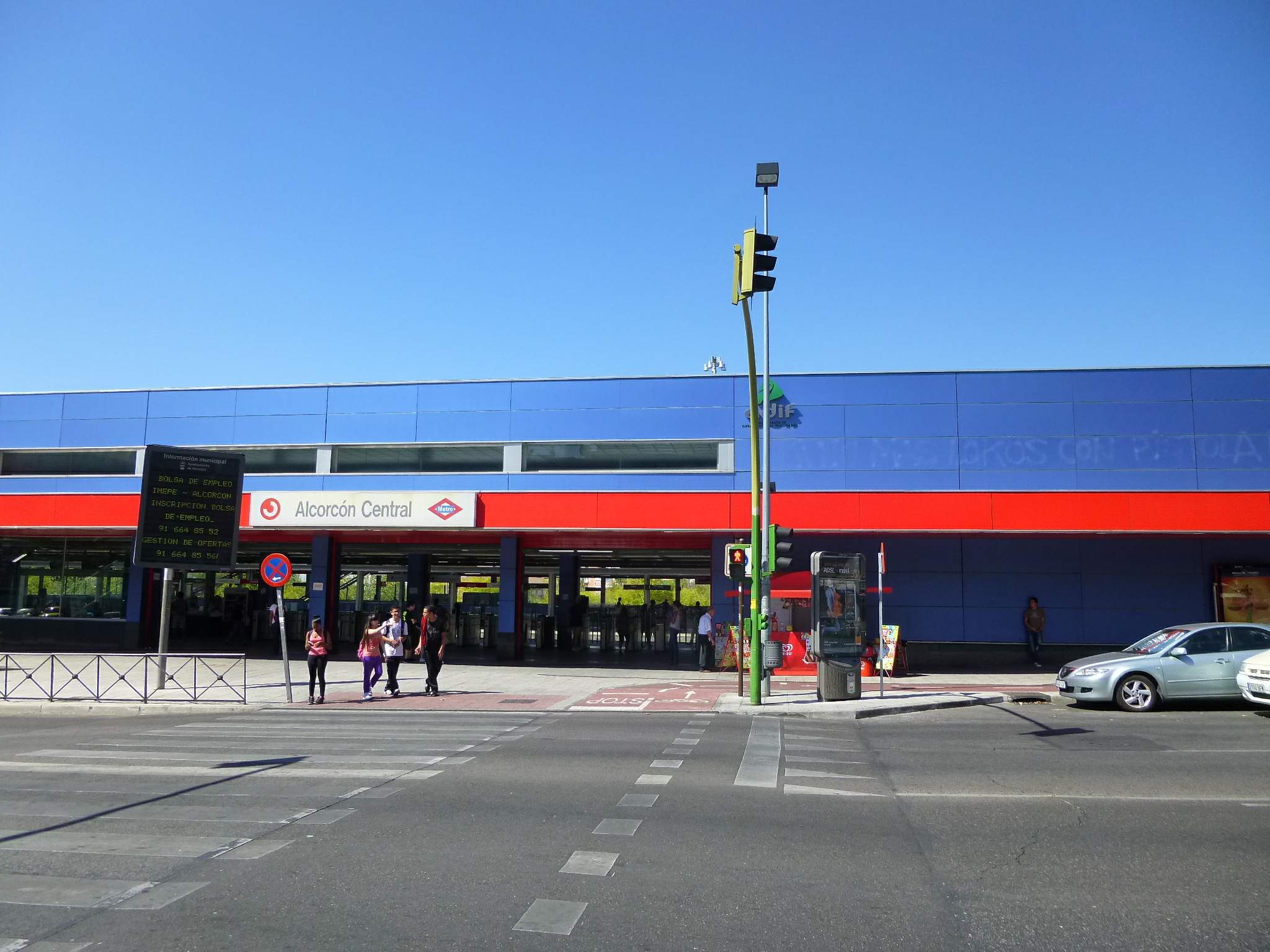 Alcorcón railway station, Spain.